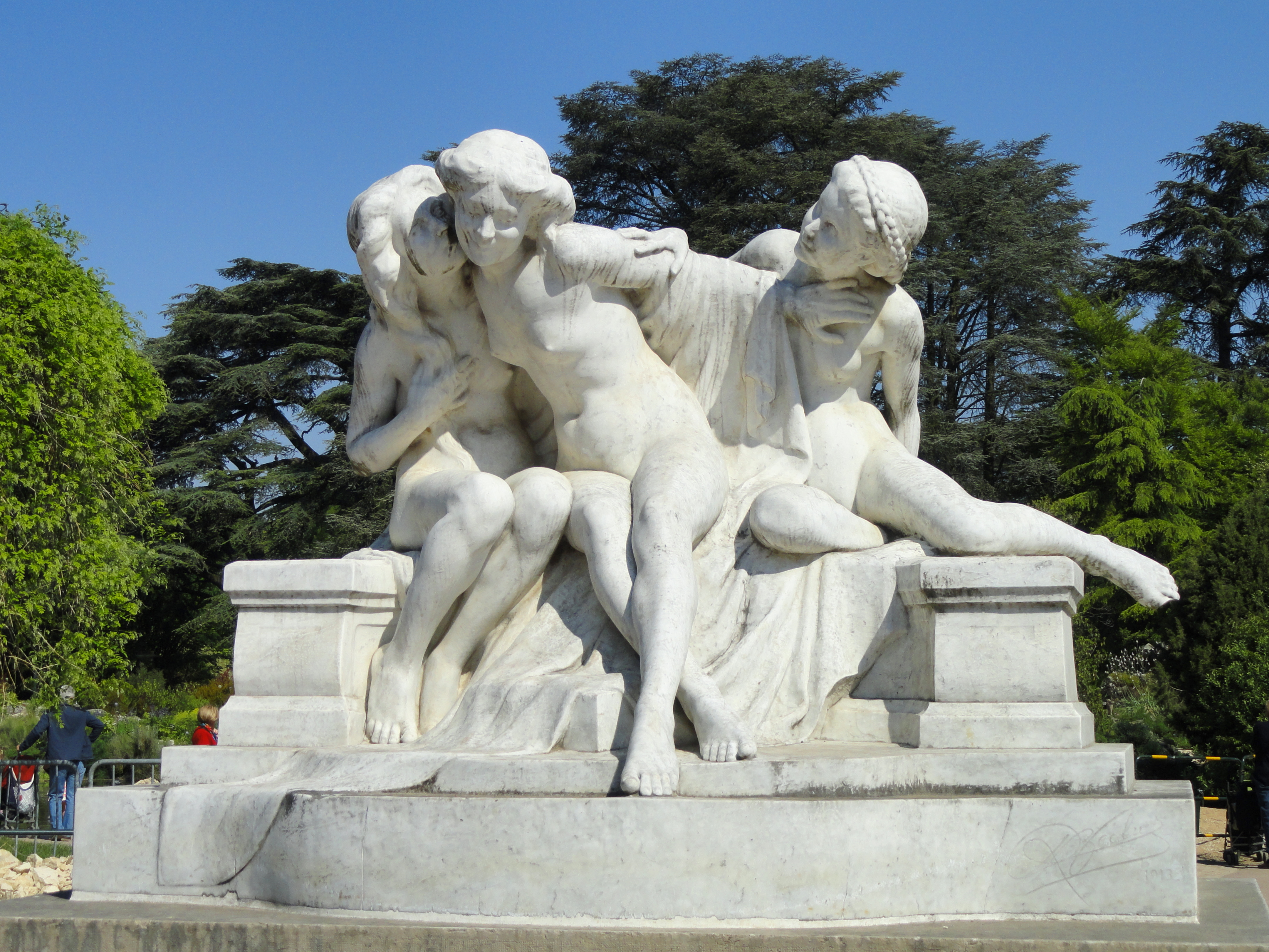 "Le Secret" by René Béclu (1881–1915), sculptor, 1913. Parc de la Tête d'Or, Lyon, France. En bas, à droite, signature R. Beclu.